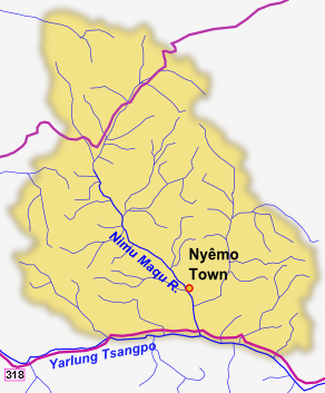 Sketch map of Nyêmo County, Lhasa, Tibet